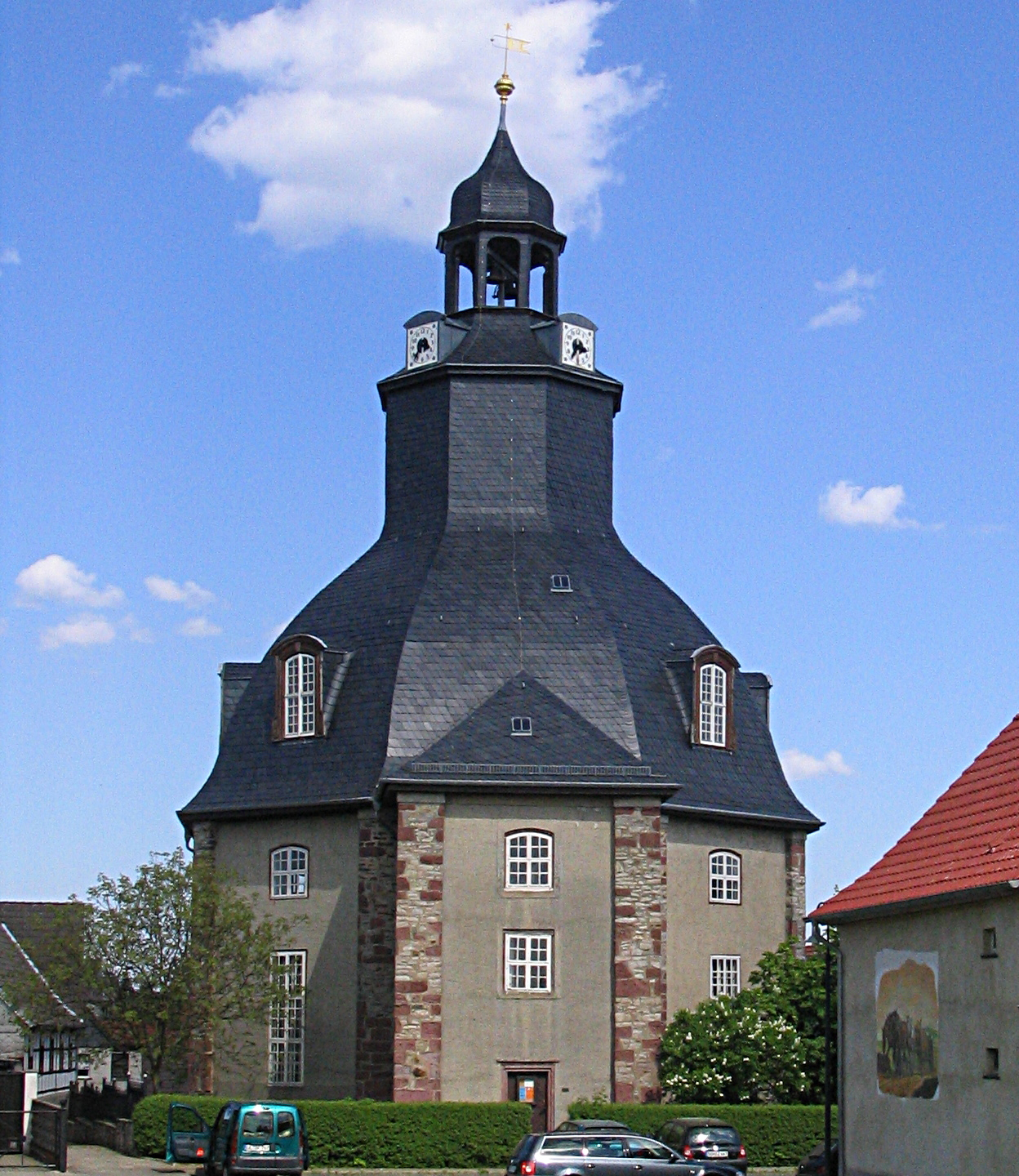 St Cyriaki and Nicolai in Schwenda in Harz